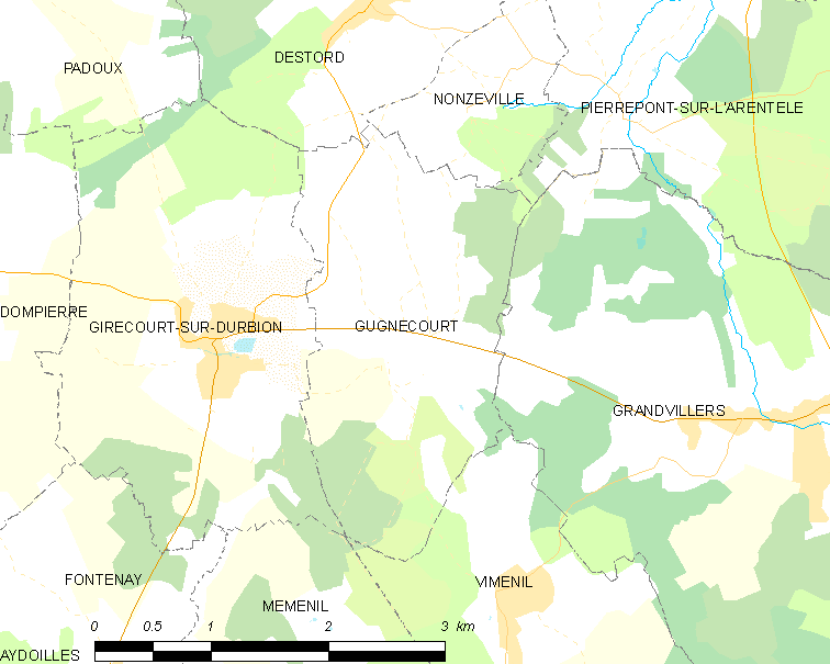 Map of French municipality Gugnécourt